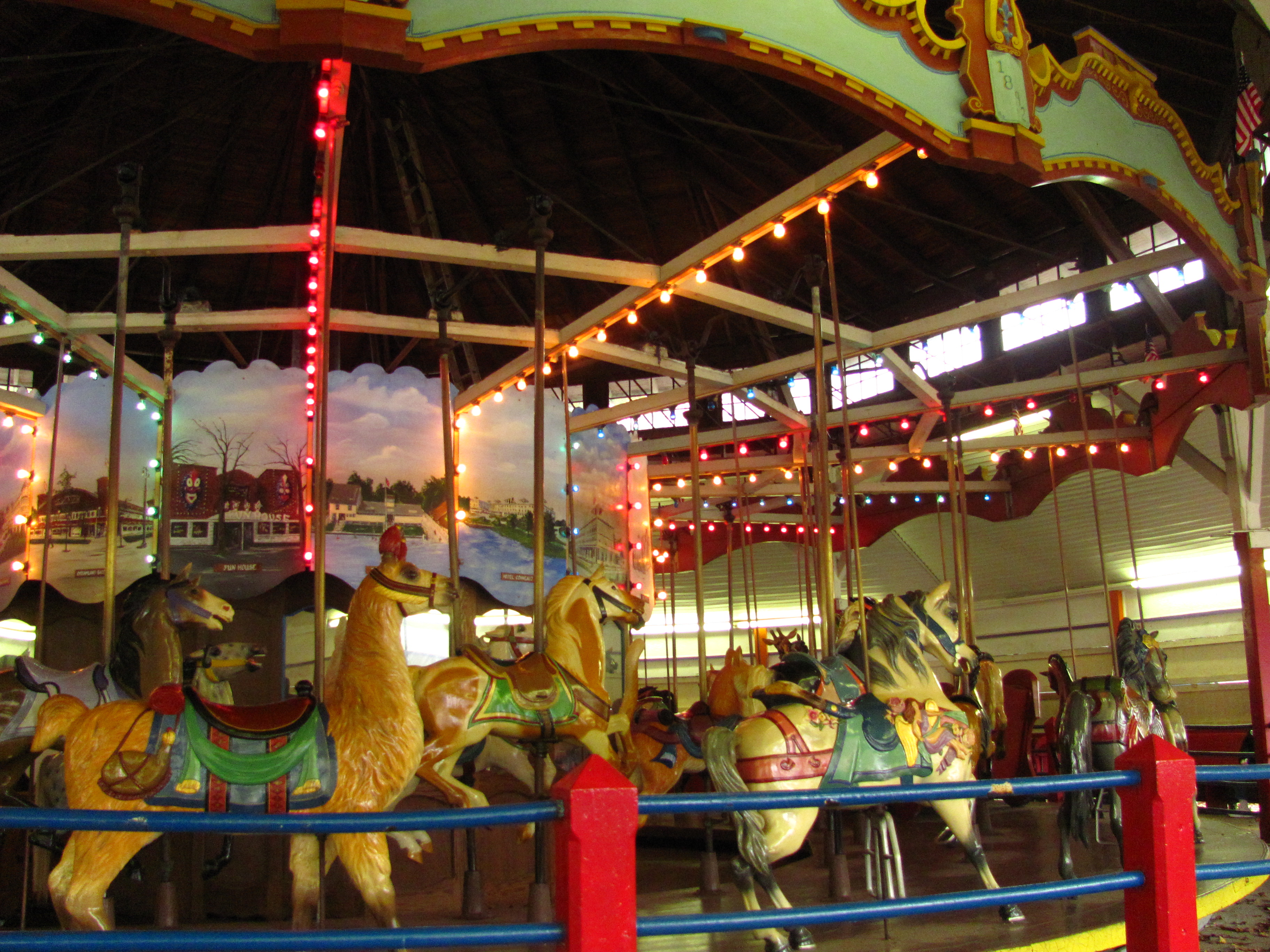 Carousel